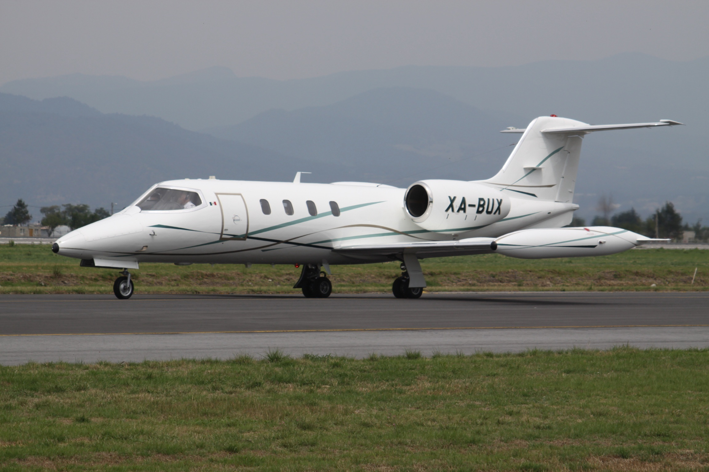 At Toluca